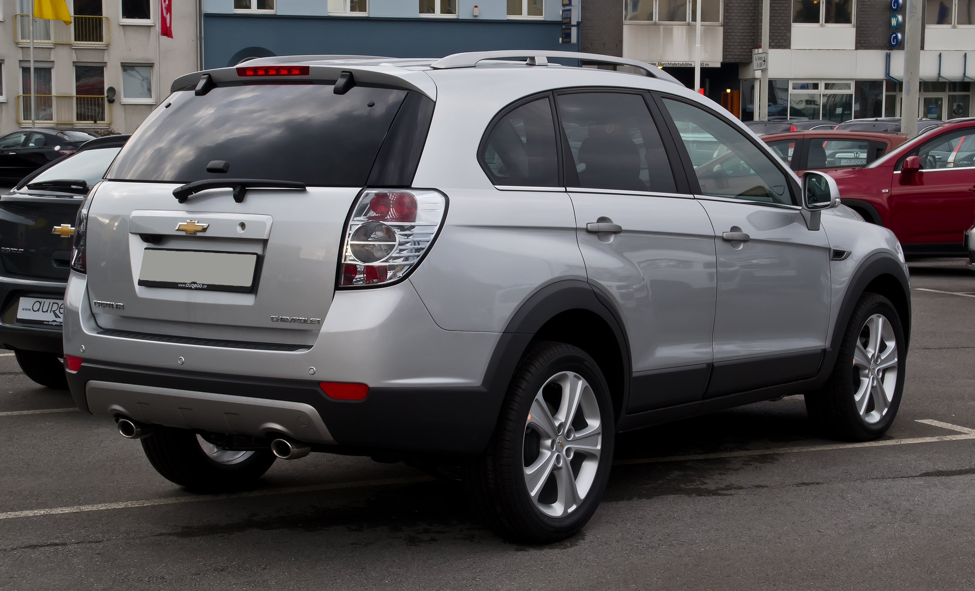 Chevrolet Captiva LTZ 2.2 D 4WD (Facelift)